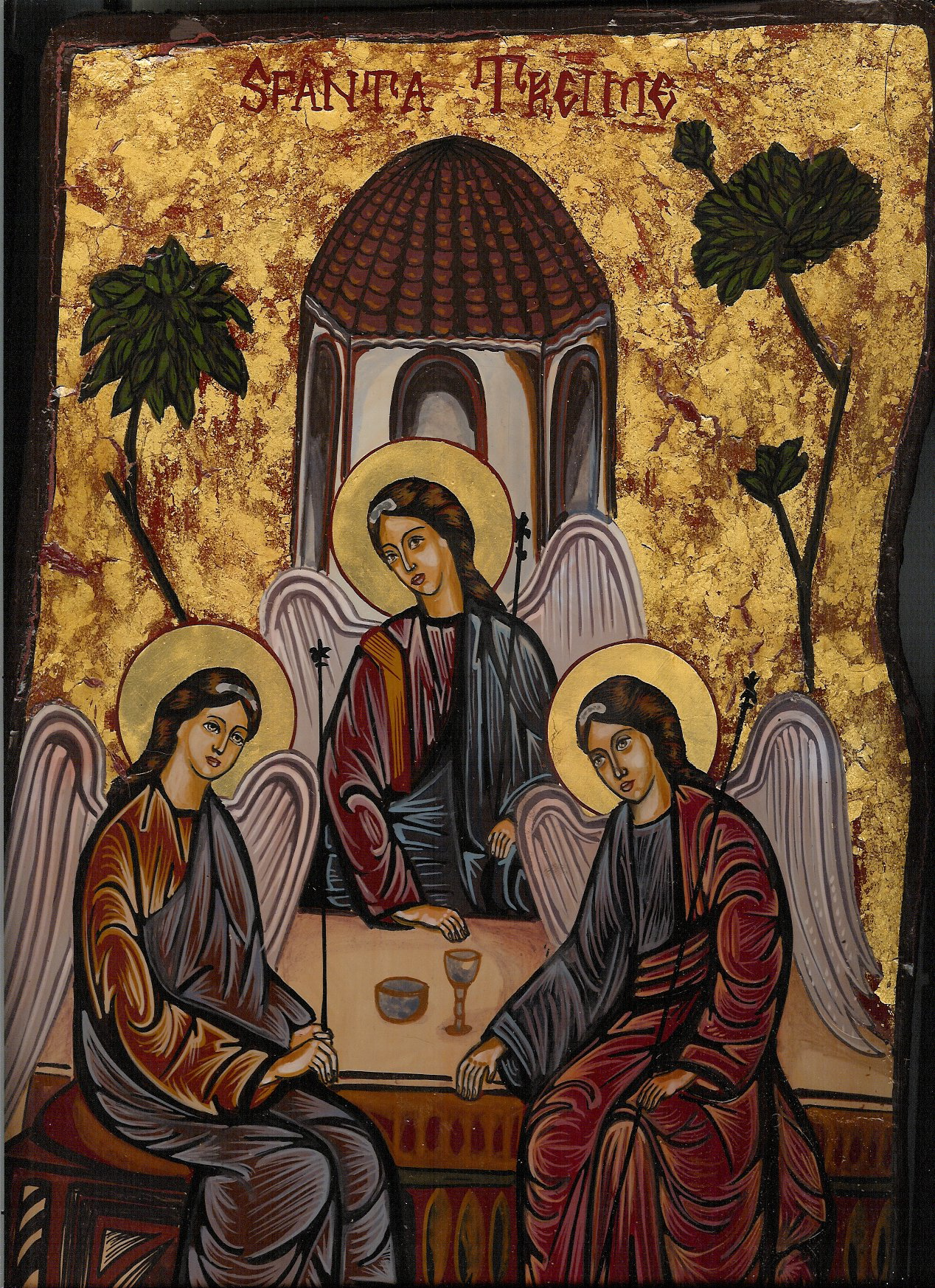 Modern Hand painted Romanian icon of the Old Testament Trinity